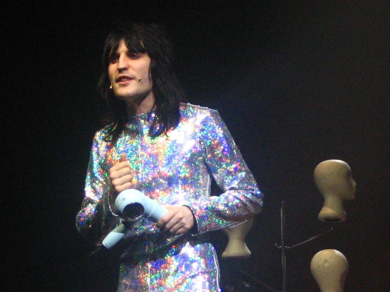 Noel Fielding portraying Vince Noir